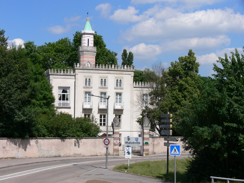 Douëra villa, in Malzéville, next to Nancy, Lorraine, France